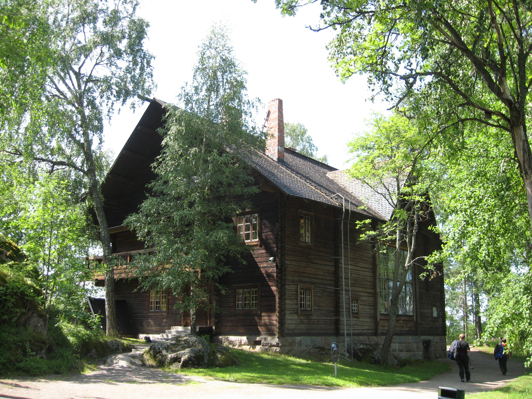 Halosenniemi, the home of Finnish painter Pekka Halonen